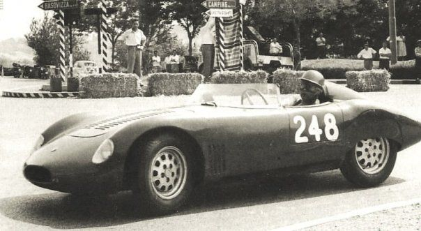 Entry #248 in the Trieste-Opicina hillclimb on July 26 1959 was Ada Pace in an OSCA MT4.